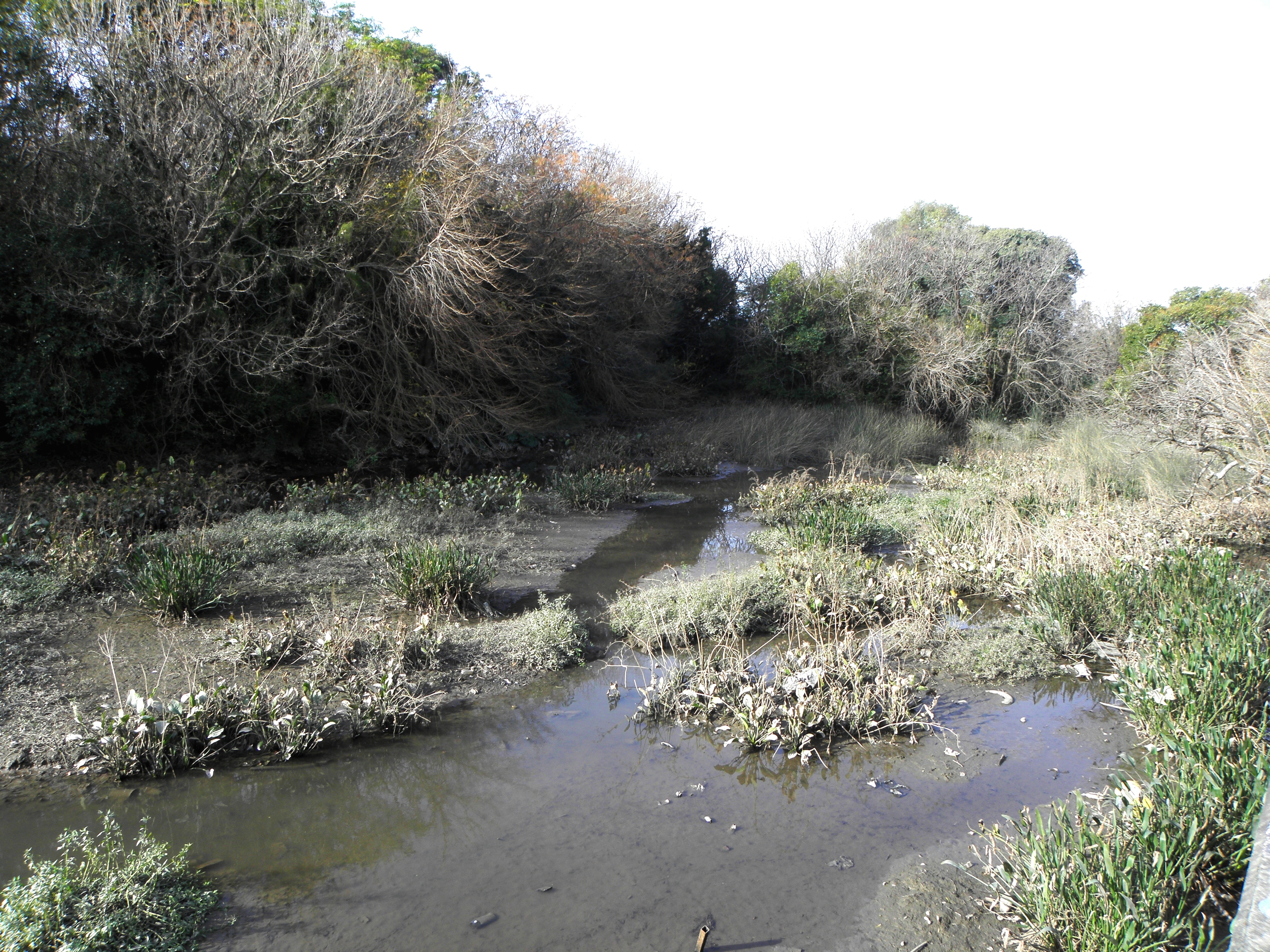 Ciudad Universitaria Ecological Reserve, on the coast of La Plata River, in the Buenos Aires city.